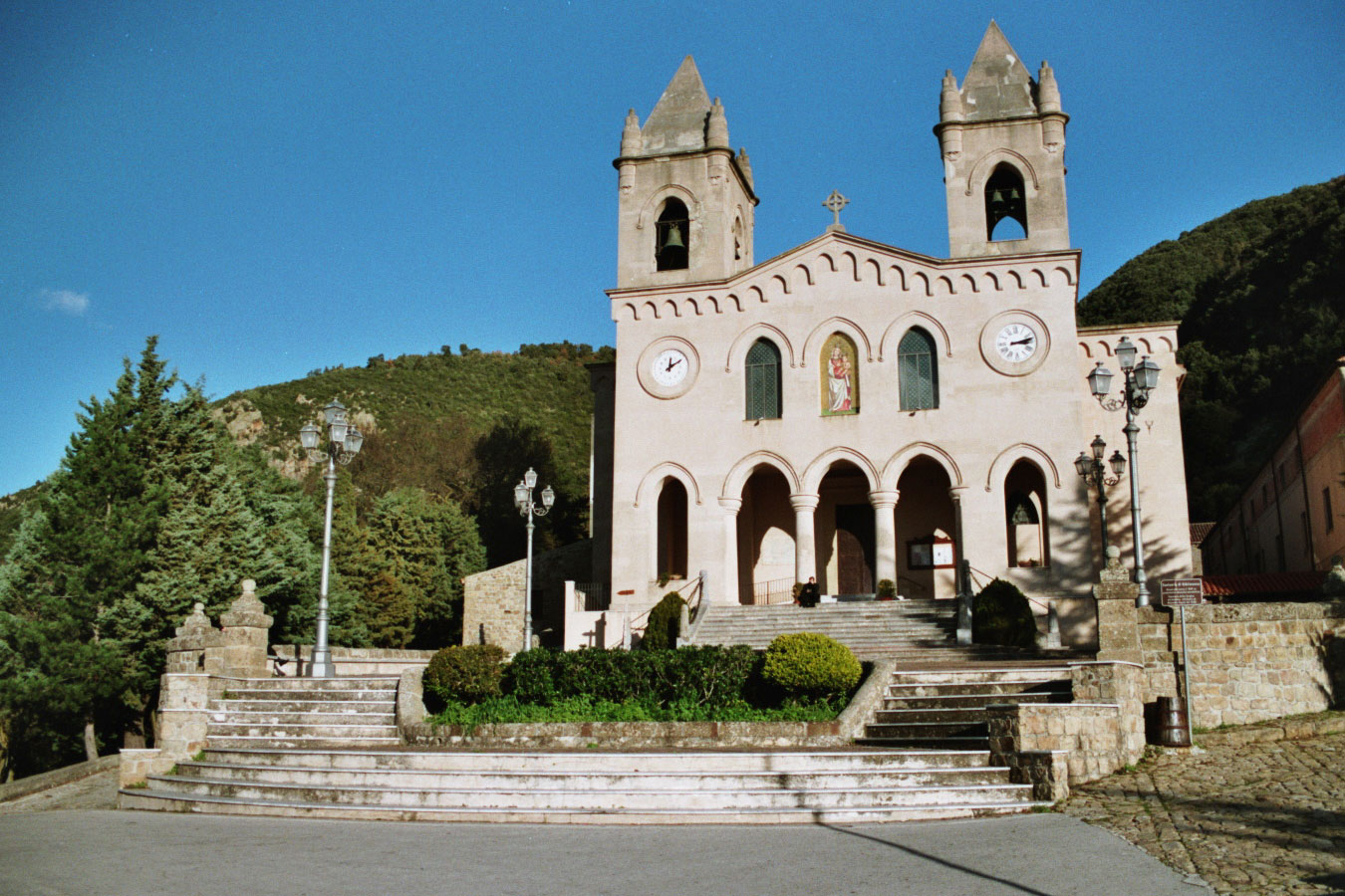 Sanctuary of the Virgin Mary in Gibilmanna, a town near Cefalù, in Sicily